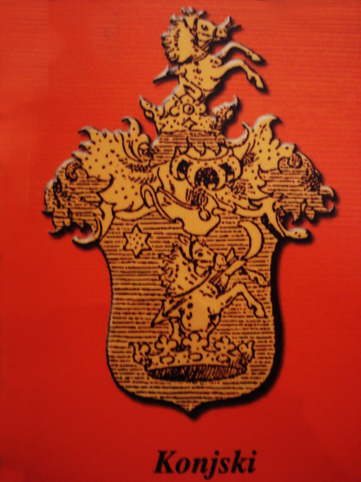 Coat of arms of the Counts of Konjski, noble family from Konjšćina, Croatia